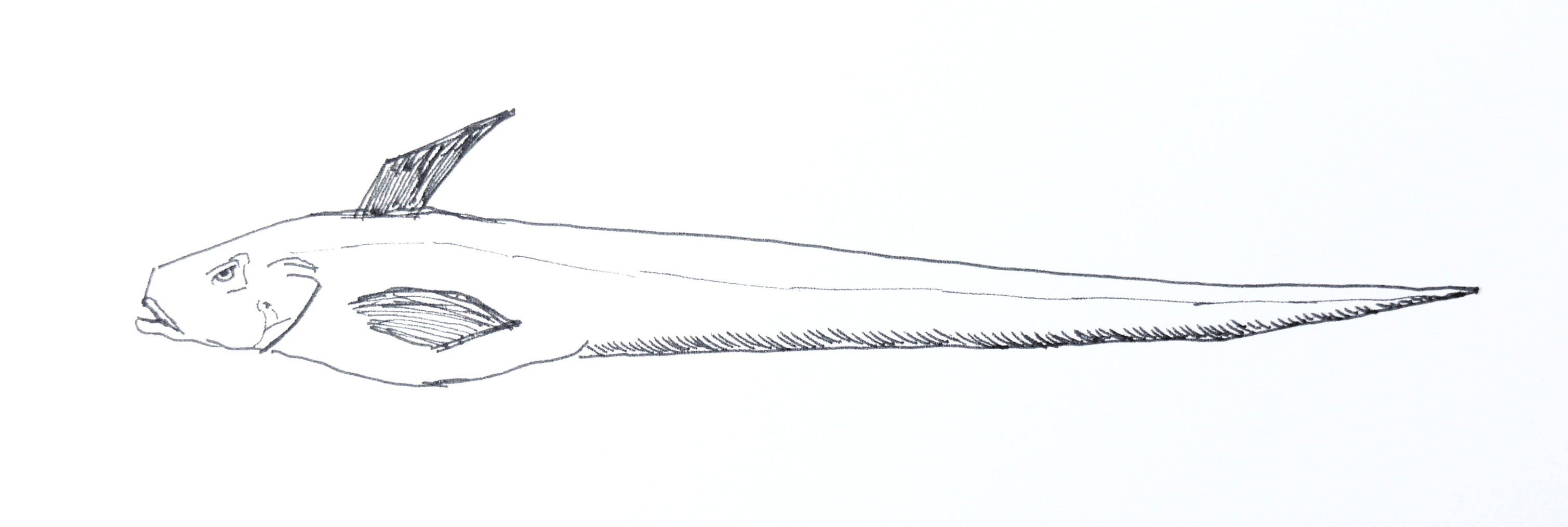 Jellynose fish (Ijimaia plicatellus)